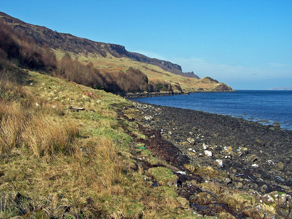 Western shore of Loch Bay The crag along the hillside is Sgurr a' Bhàgh.